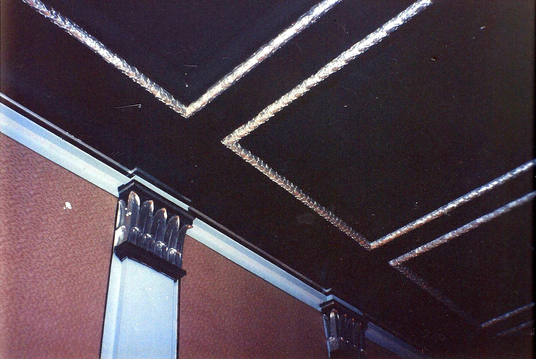 Scanned 35mm image of Beacham Theatre ceiling plaster work, column capitals, and north wall with Ozite sound reducing material covering in March 1991